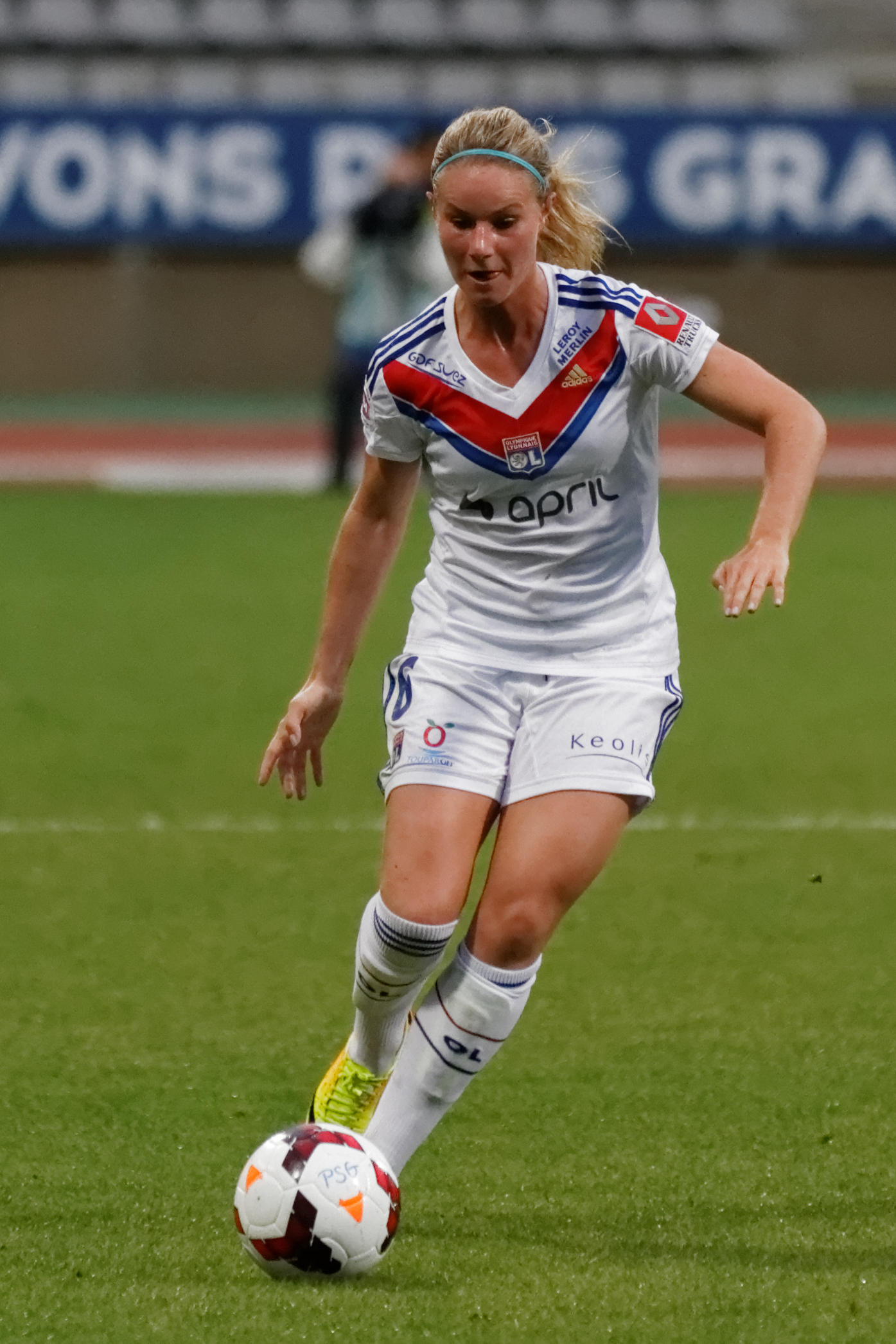 PSG-Lyon, September 29th, 2013.